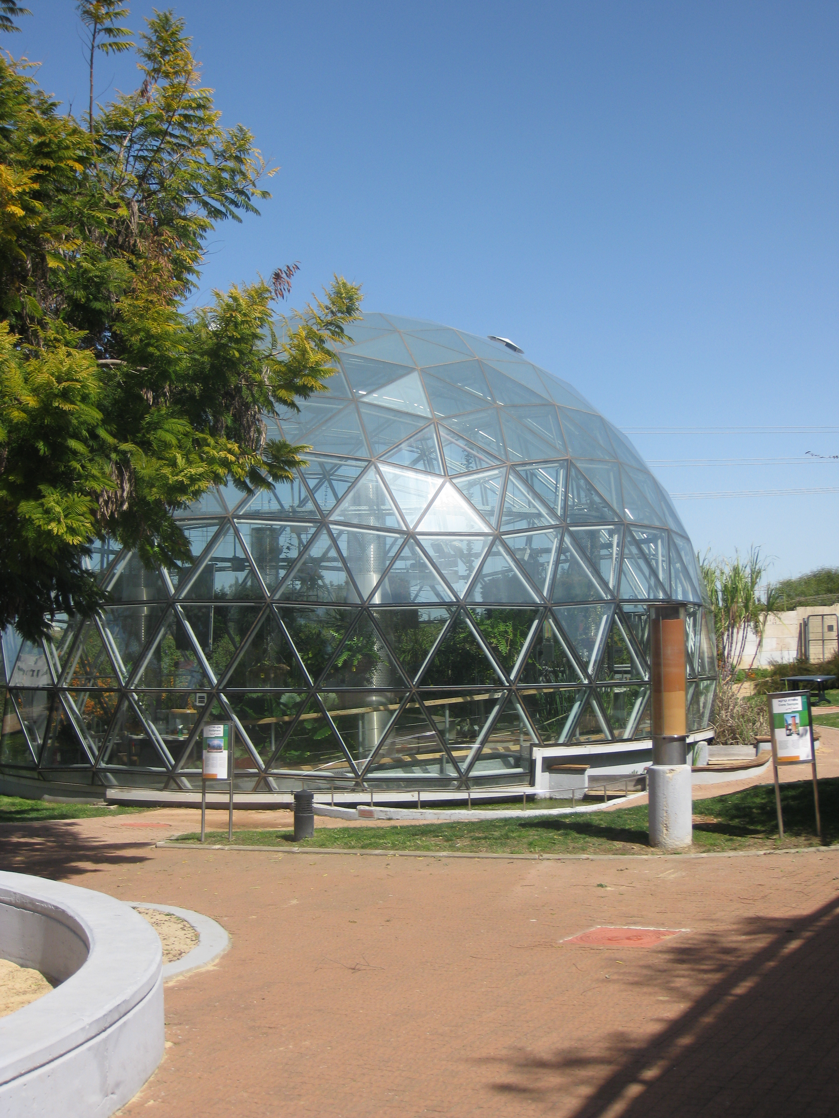 The Weizmann Institute - Clore Garden of Science - מכון ויצמן - גן המדע על שם קלור